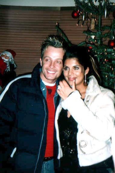 Ross Antony and Indira from "Bro'Sis"